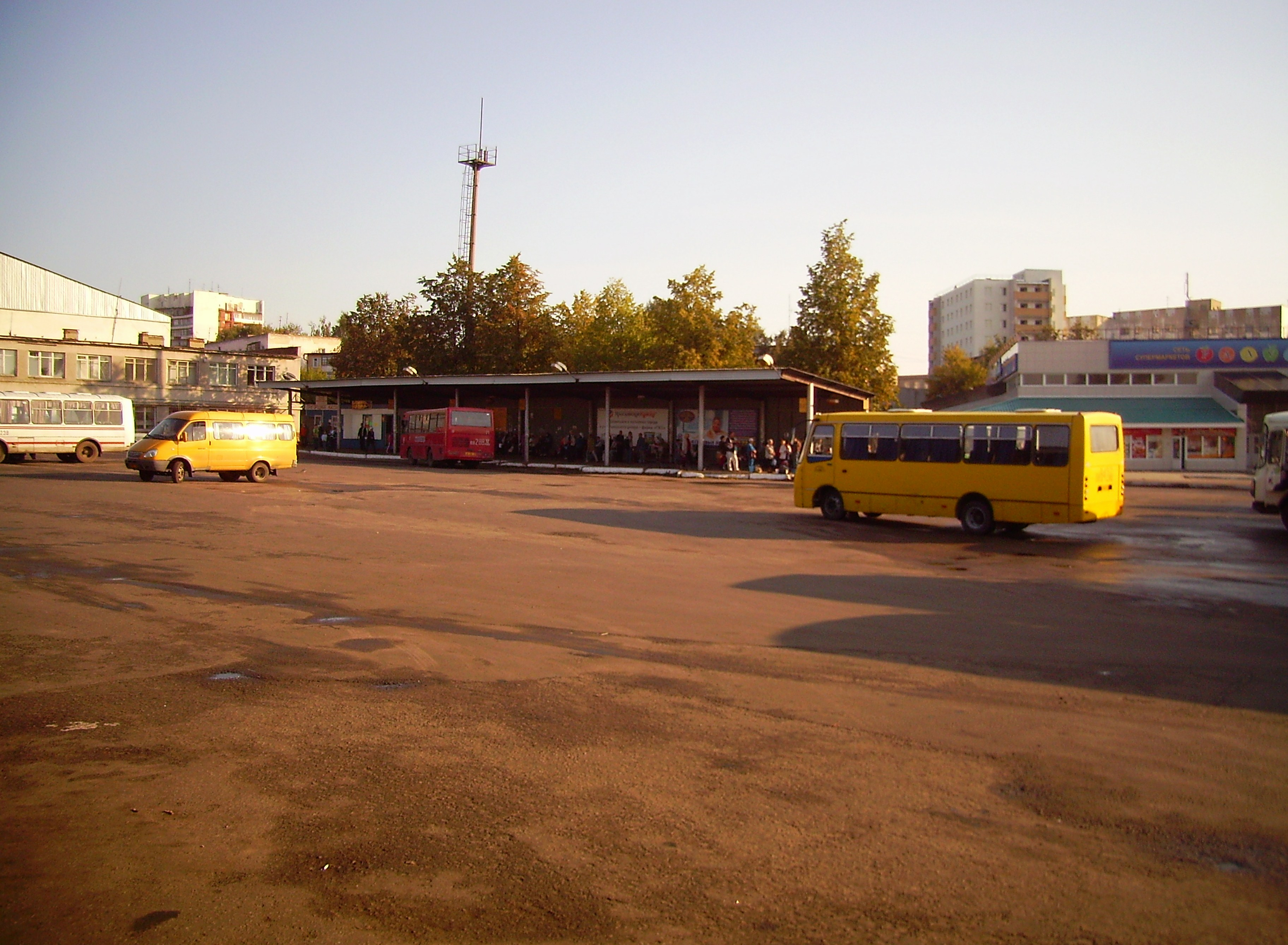 Bus station of Ioshkar Ola